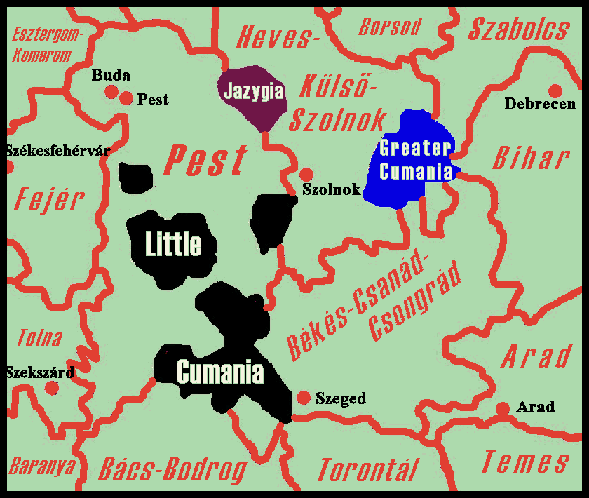 Map showing Little and Great Cumania and Jazygia within 18th century Kingdom of Hungary.